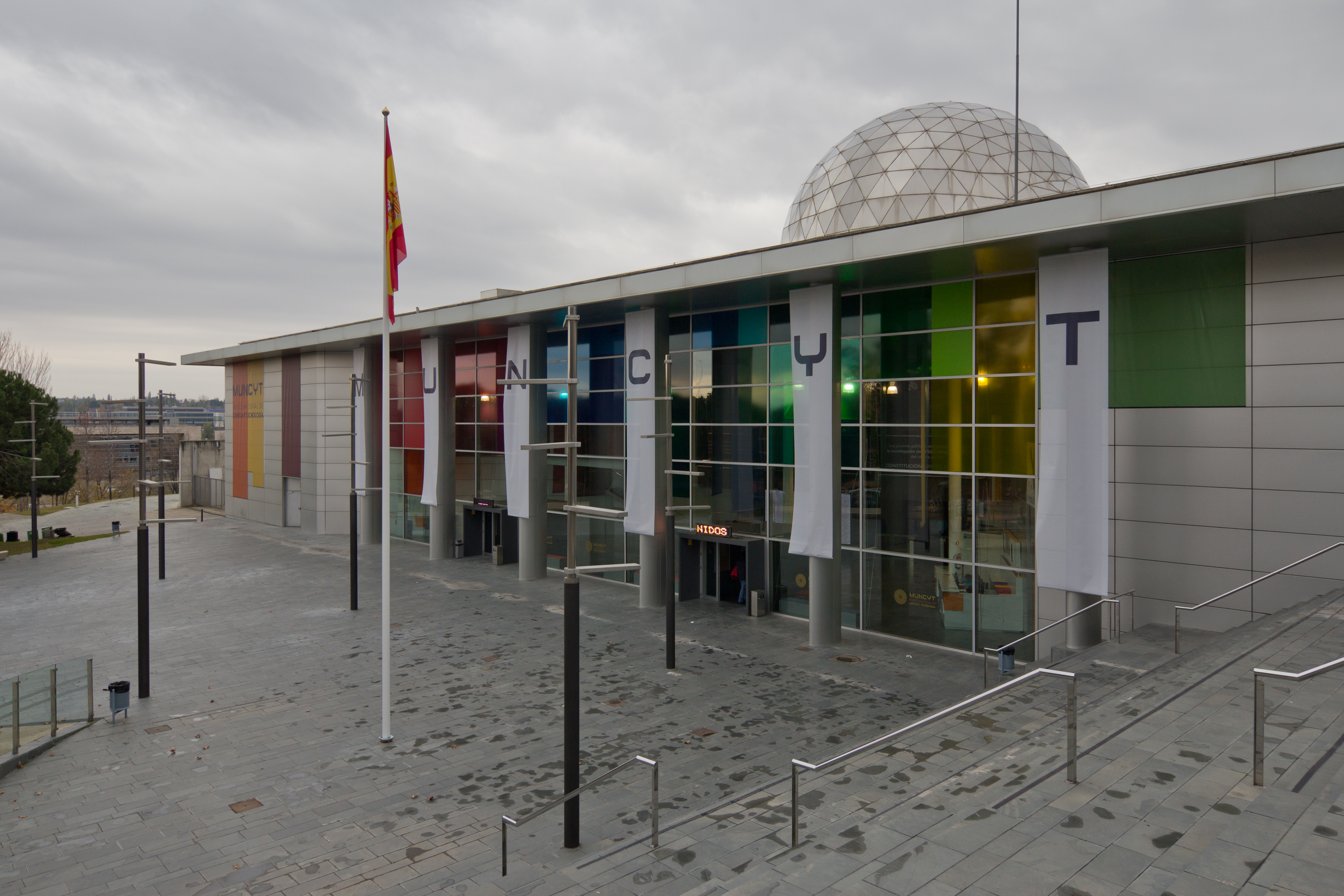 National Museum for Science and Technology (MUNCYT), Alcobendas, Community of Madrid, Spain.